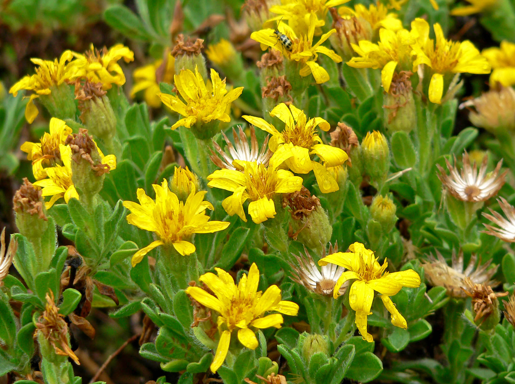 Photo of Heterotheca sessiliflora ssp. bolanderi at the Regional Parks Botanic Garden